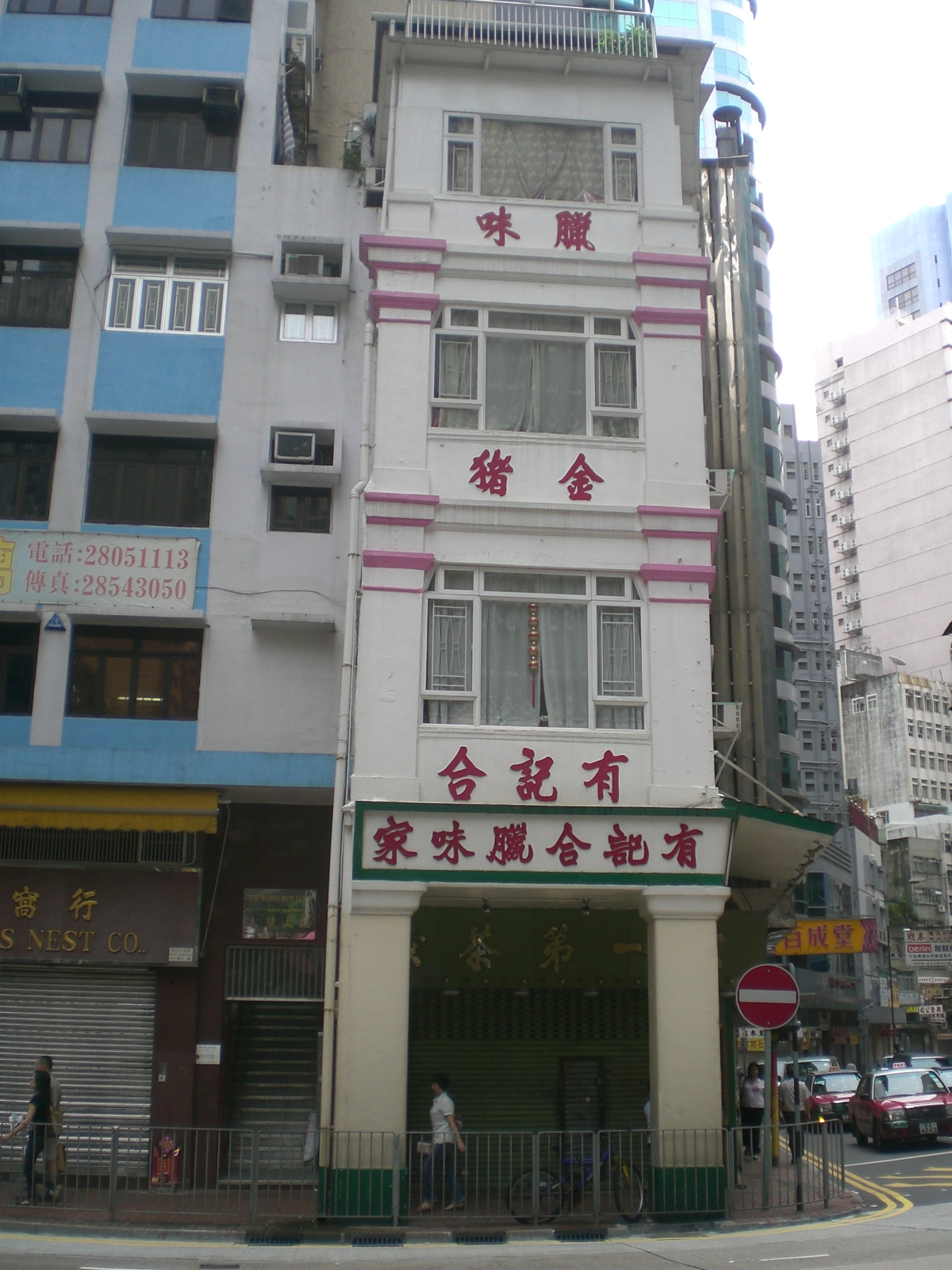 皇后大道西唐樓No. 1 Queen's Road West, Sheung Wan